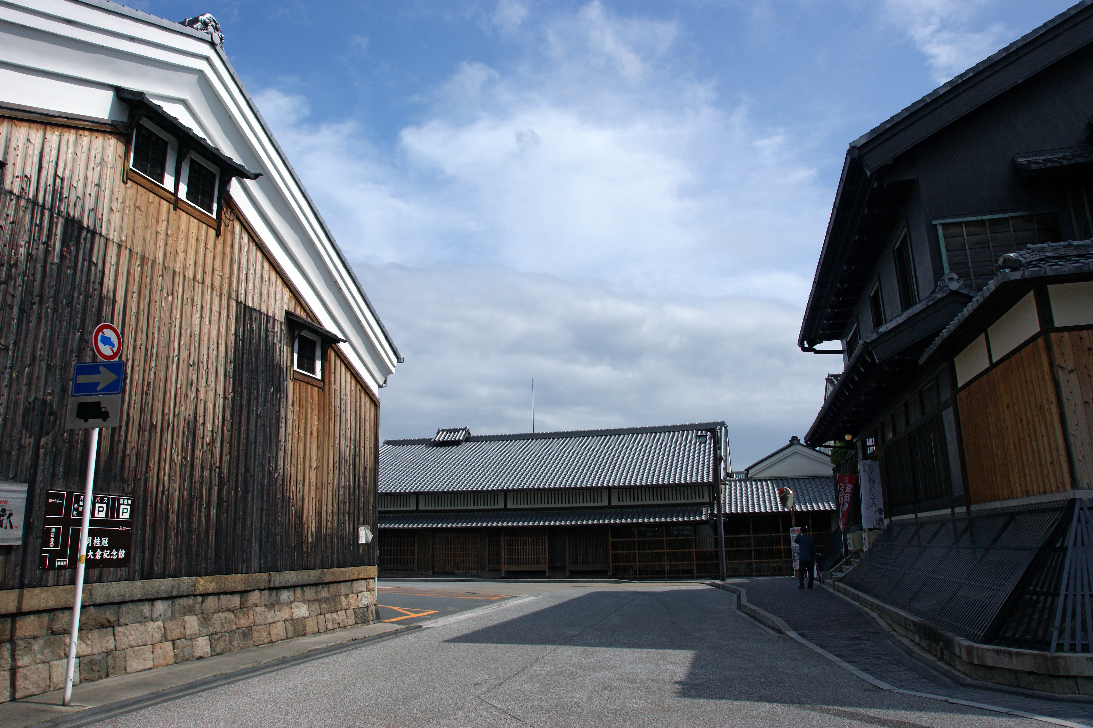 Gekkeikan in Fushimi, Kyoto, Kyoto prefecture, Japan